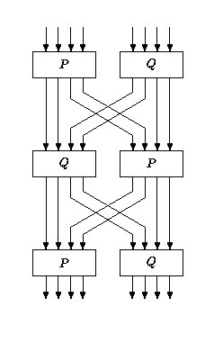 "tweaked" S-box